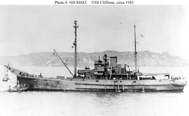 USS Cliffrose (AN-42) In a harbor, circa 1945. She appears to be lifting a large anchor.